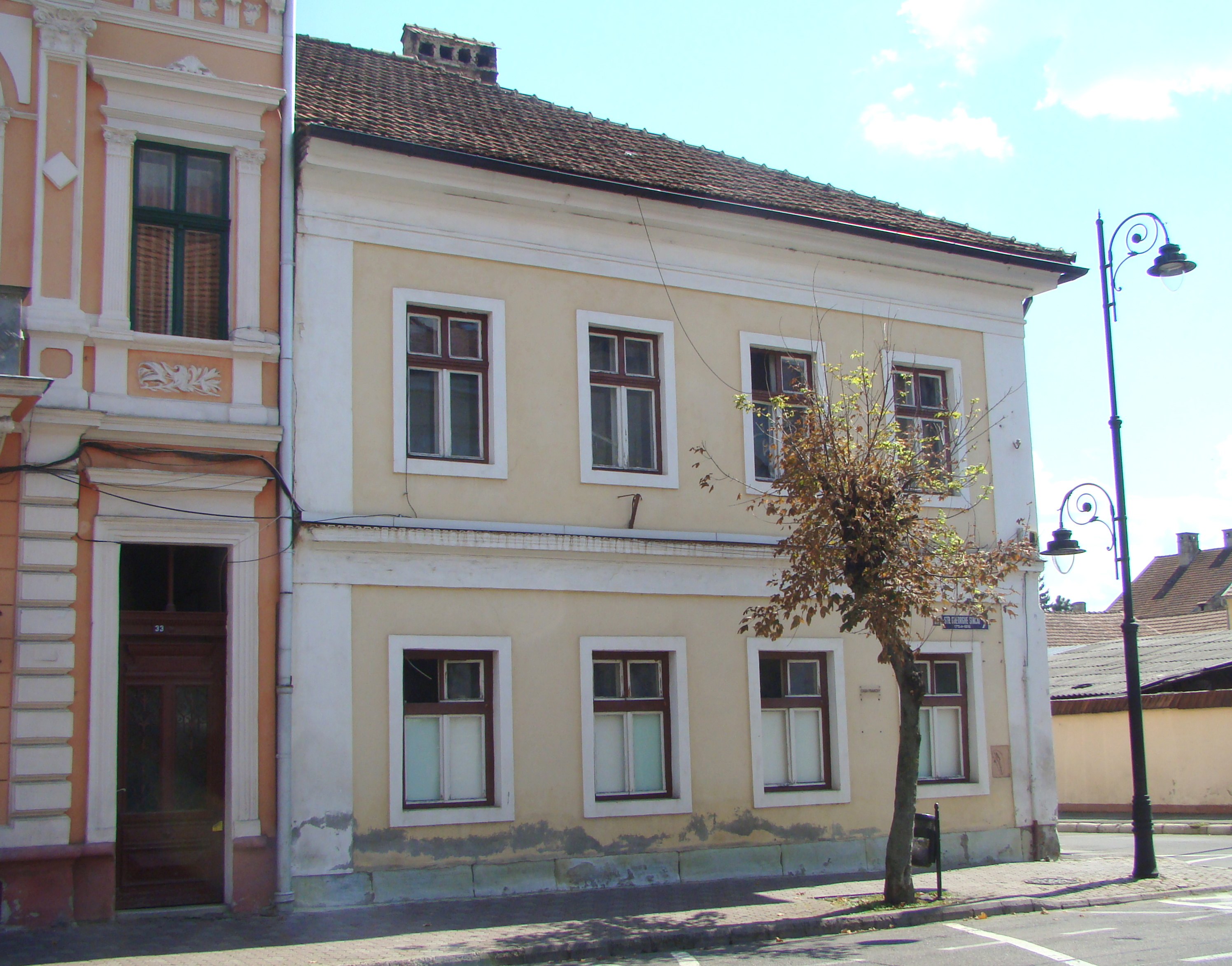 House, historic monument, in Bistrița, Gheorghe Șincai street 35